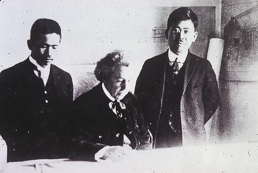 From left, Arata Endō, Frank Lloyd Wright and Ito Bunshiro(He is not Aisaku Hayashi).